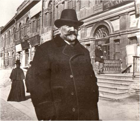 Ilia Tchavtchavadze. Photo by amateur photographer David Guramishvili.